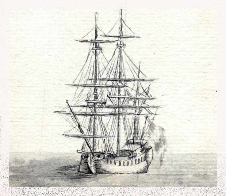 Arch. dép. Char.-Mar. 4 J 4297